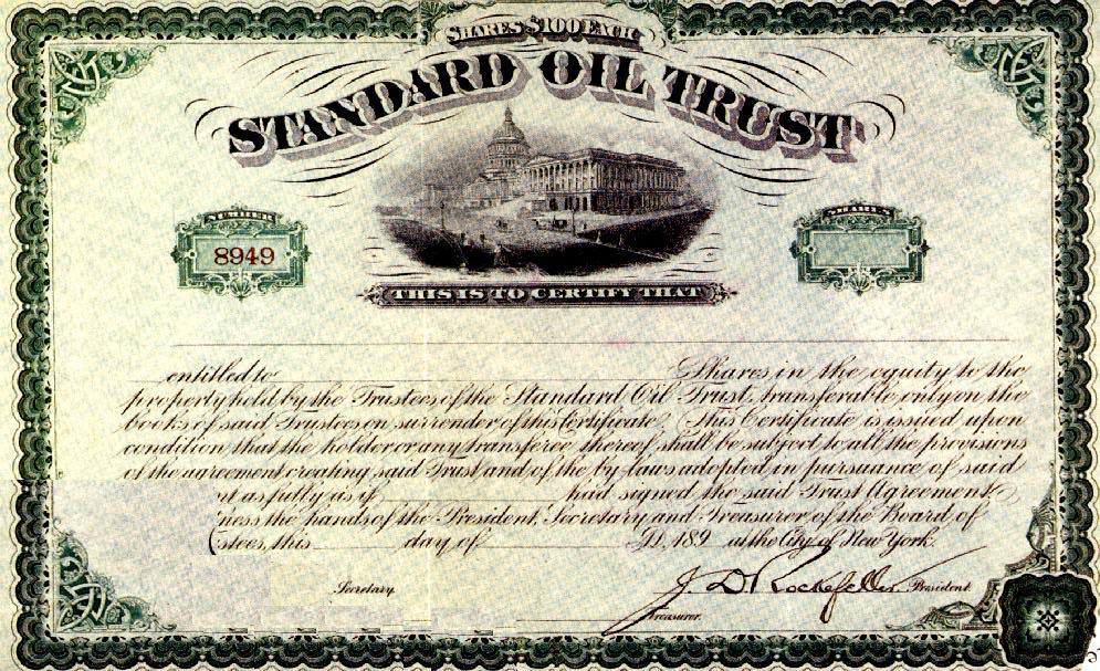 Copy of US Standard Oil trust certificate from 1896.